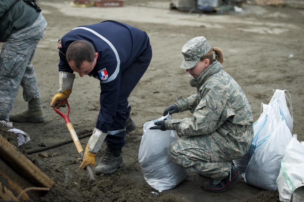 Second Lt. Christina Heino from Hydepark, N.Y., assigned to the 301st Intelligence Squadron, works alongside members of the French army to clean up a local road during a cleanup effort here in this tsunami-battered city. More than 130 volunteers from Misawa Air Base and members of the French army and Fire Department assisted in a cleanup effort in the northern Japanese city that was devastated by a 9.0-magnitude earthquake that triggered a devastating tsunami on Japan's eastern coastline. (U.S. Navy photo by Cryptologic Technician (Collection) 2nd Class Thomas Ahern/Released) Naval Air Facility Misawa Date Taken:03.21.2011 Location:HACHINOHE, 2, JP Related Photos